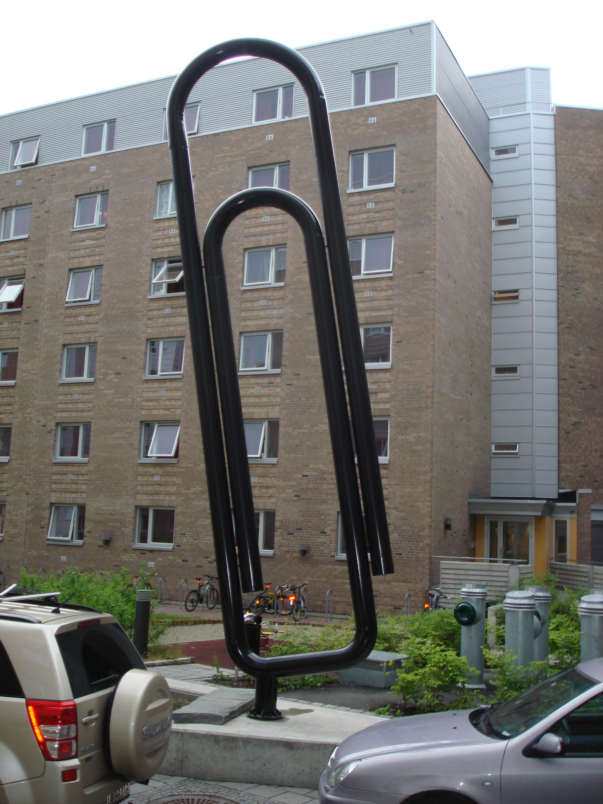 This photo of a giant paper-clip commemorates the patent issued to Johan Vaaler in 1901 of an unsuccessful version. The monument does not depict his invention, but the successful Gem clip.